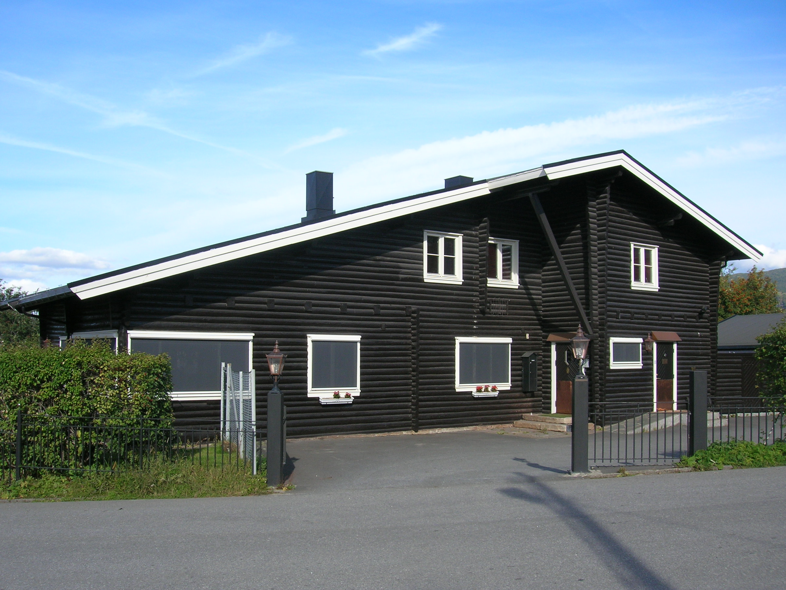 Headquarter of the Gestapo (Geheime Staatspolizei) of the Nazi occupants during World War II in Mo i Rana, Rana municipality, Norway. Photo on 9 September, 2008 with a Nikon Coolpix 5600 5,1 Megapixel camera.